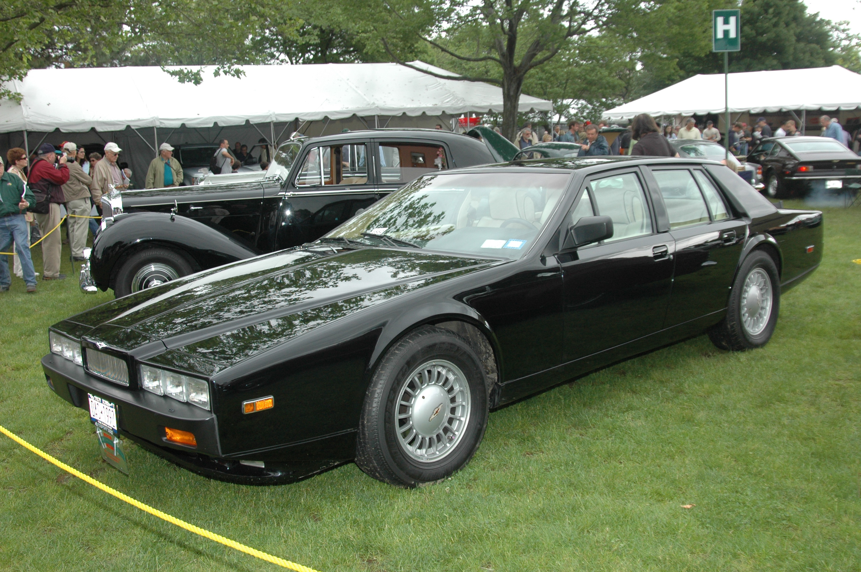 1989 Aston Martin Lagonda Sports Sedan. Photographed by Jagvar at the Greenwich Concours d'Elegance in Greenwich, CT on June 4, 2006.